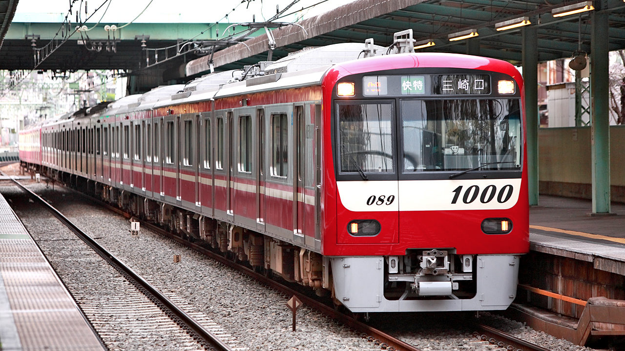 Keihin Electric Express Railway 1000 Series EMU ( II )